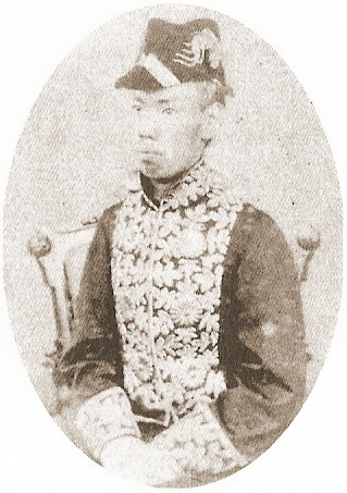 Meiji Emperor 1872